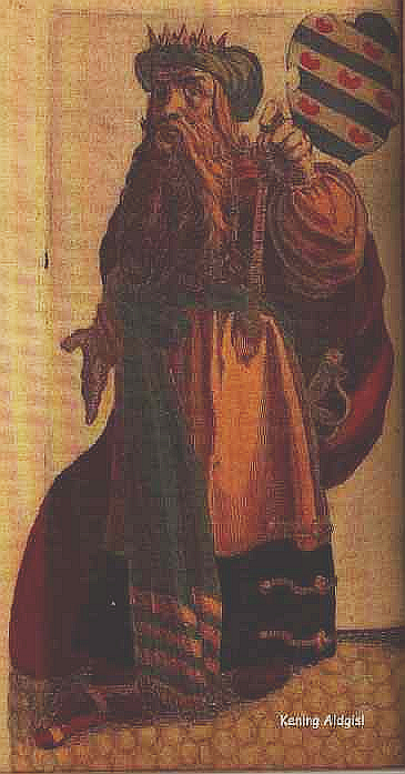 Aldgisl, aka Aldgillis, ruler of Frisia in the late seventh century Nordfriisk: Aldgillis, an fresken köning uun't 7. juarhunert